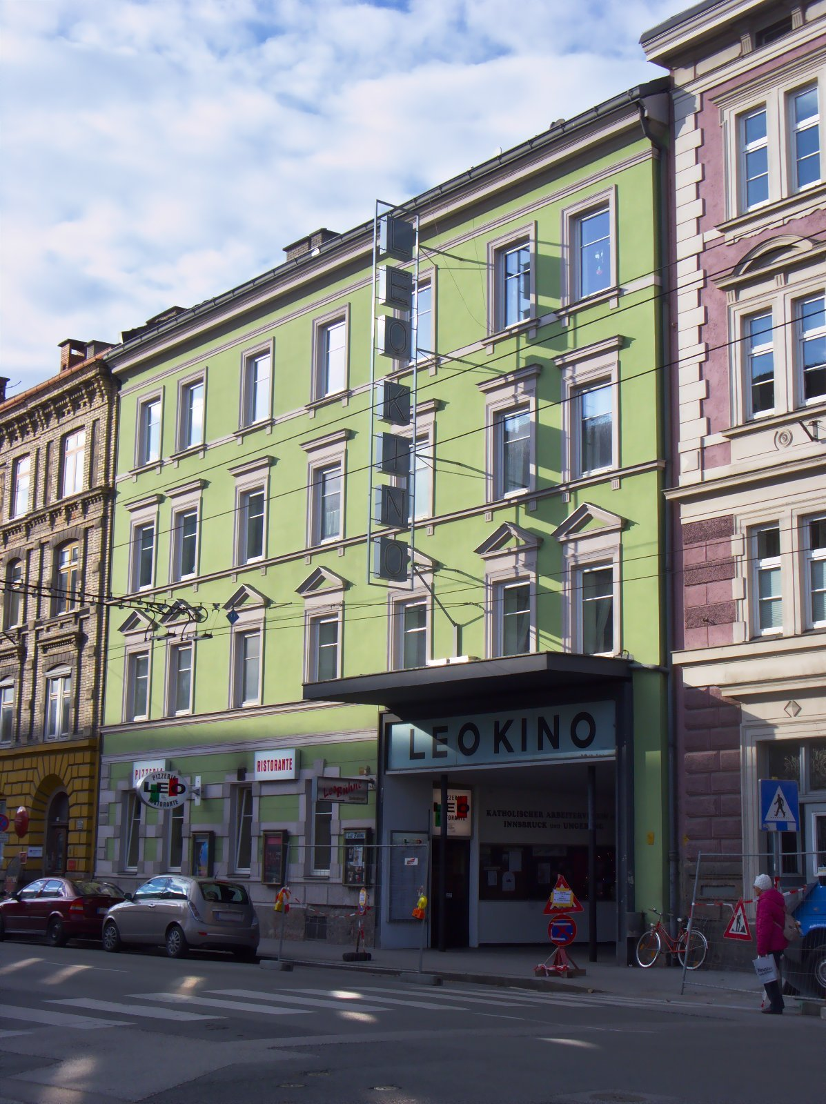 entrance of Leokino (cinema) in Innsbruck